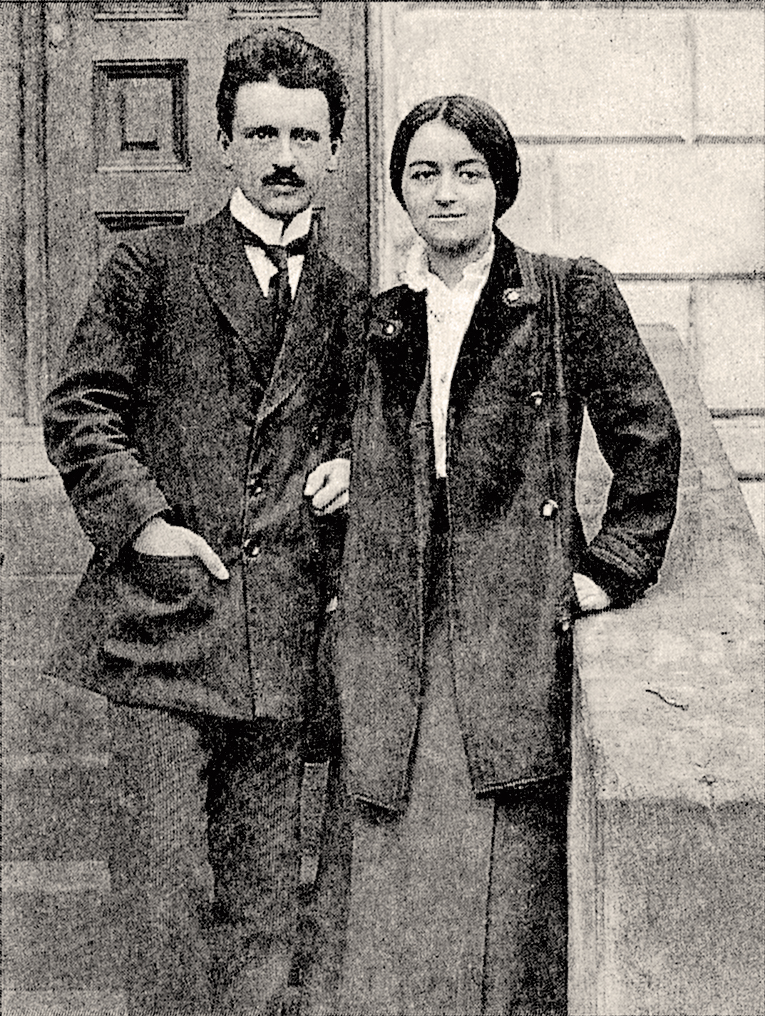 Zoltán Tildy and his future wife, Erzsébet Gyenis in 1914. They married in 1916.